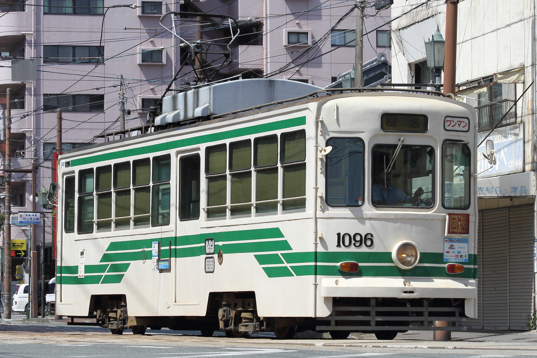 Kumamoto City Tram No.1096